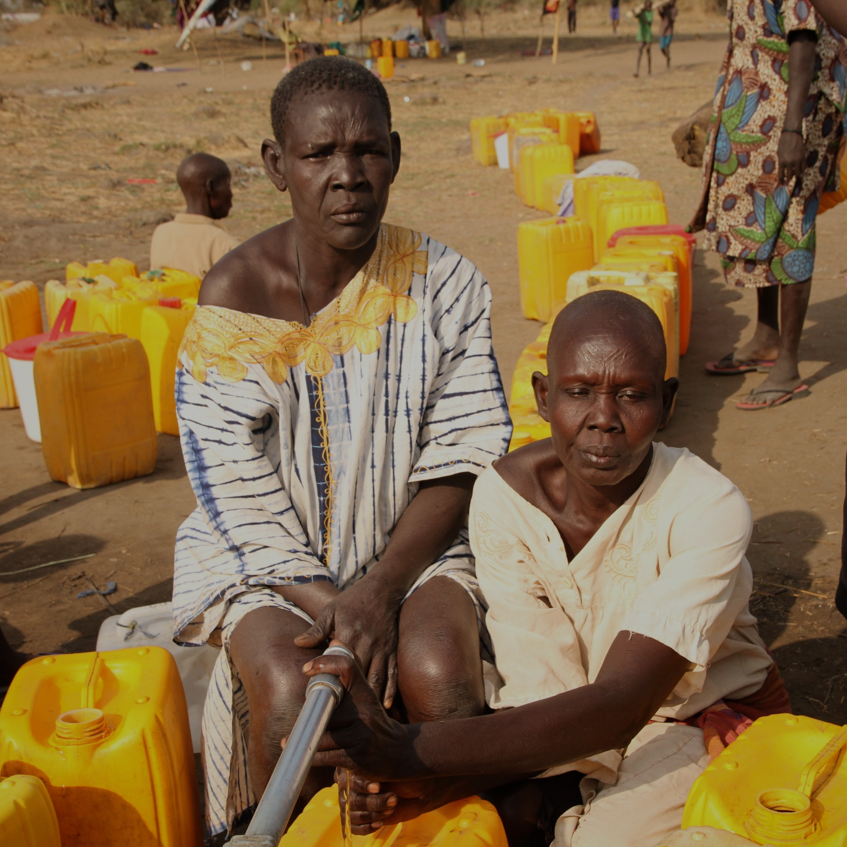 Oxfam is helping to provide 1 million litres of water each day in Mingkamen, but the demand is such that people must wait up to two hours in line to fill their buckets. Grandmother Dabora Alek has waited two hours to fill her jerry can full of water for her family. "The water is clean, but we have to wait too long. The sun is hot and we don't have a choice. Sometimes fights break out at the water point because everyone is waiting so long. The water monitors keep the peace but I wish there were more water points." Oxfam/Aimee Brown